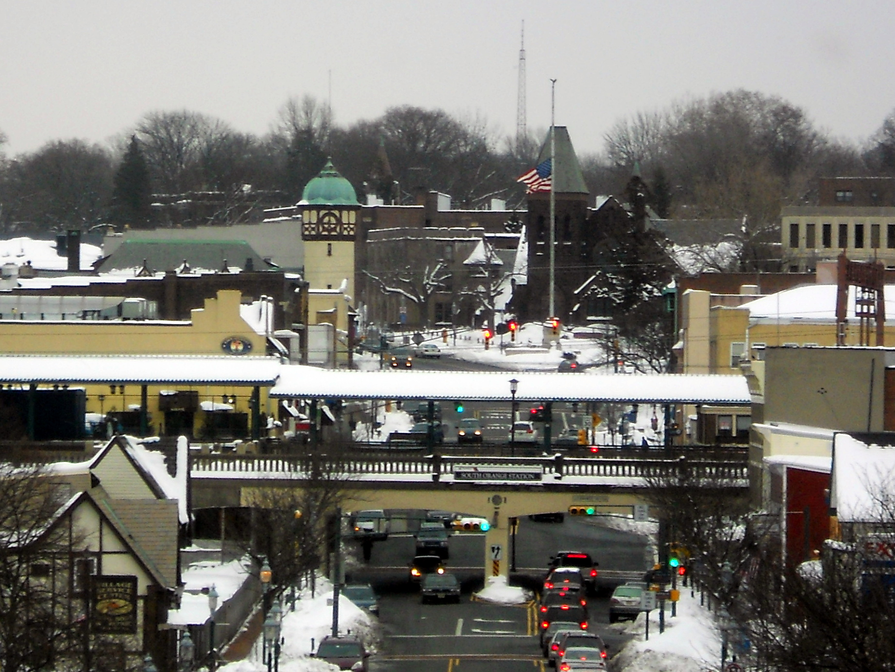 A view of South Orange station in front, and village hall top left, both on NRHP.